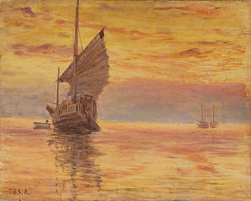 The Sea at Sunset, by Aoki Shigeru, Kawamura Art Museum, Karatsu, Saga, Japan